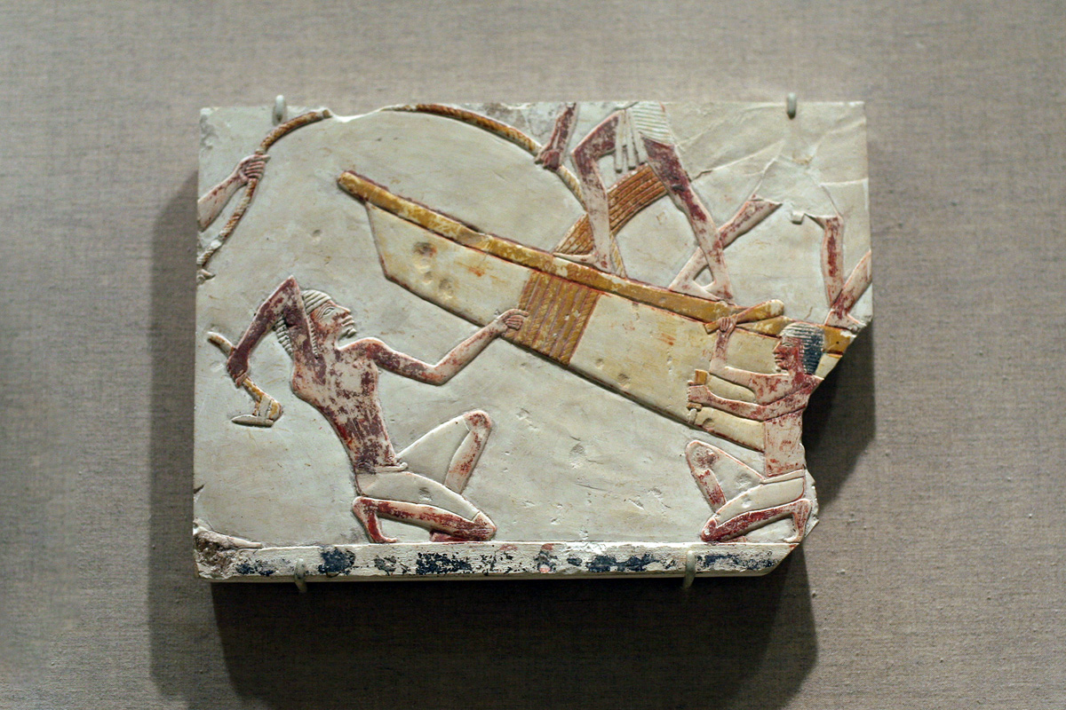 Boat-Building Scene, ca. 664-634 B.C.E. Limestone, painted, 7 5/8 x 10 5/8 in. (19.4 x 27 cm). Brooklyn Museum, Charles Edwin Wilbour Fund, 51.14.